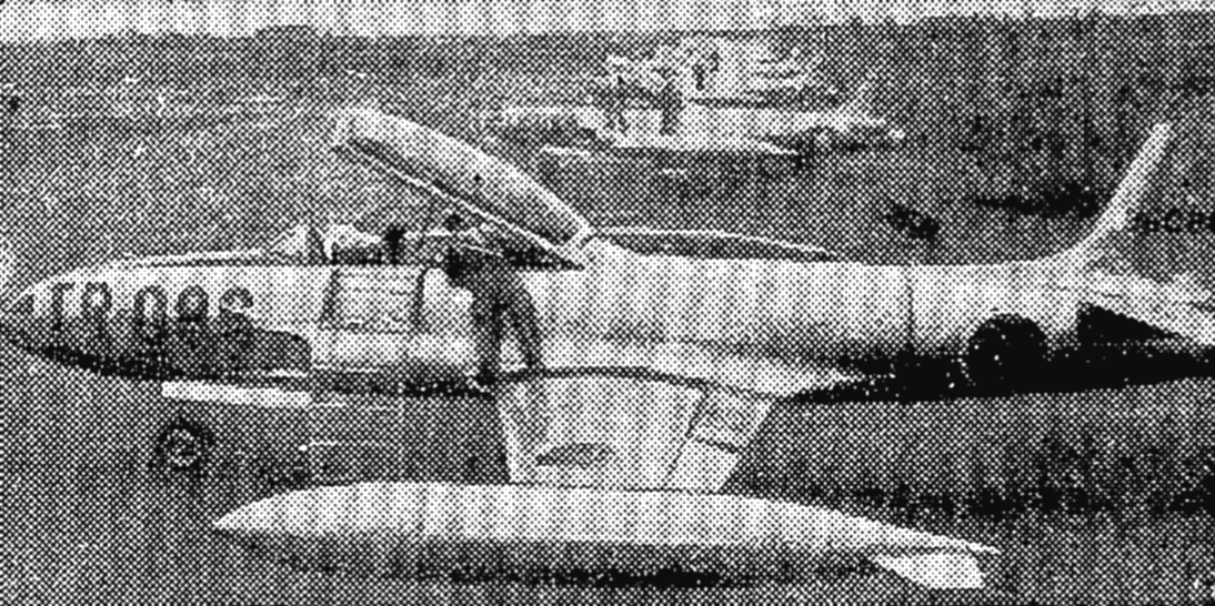 A U.S.-provided jet of the Japan Self-Defense Forces